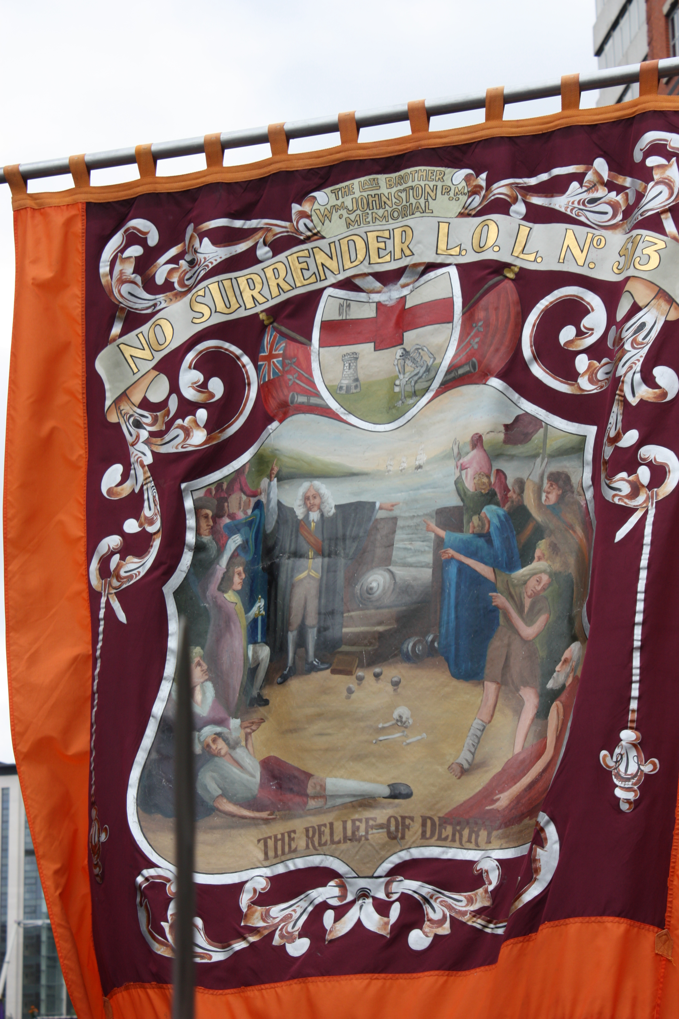 Banner, 12 July Orange Parades, crossing Donegall Square South, Belfast, Northern Ireland, July 2011 (No Surrender Loyal Orange Lodge 513)